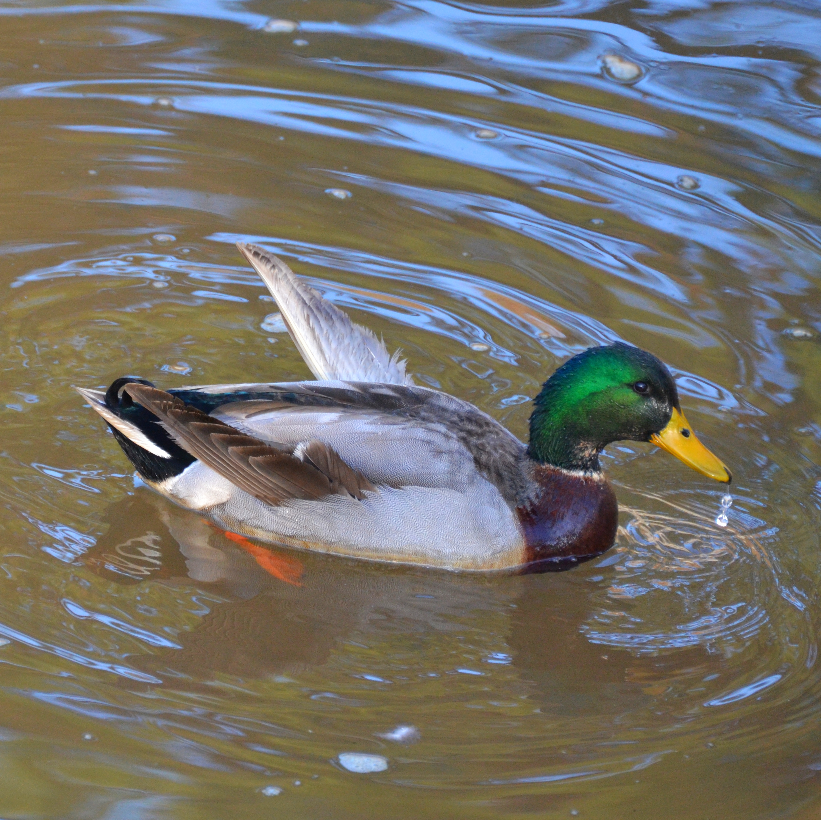 Maybe it is because he is different that I like this guy so much. He has them odd wings but he with the bunch and not by himself - total acceptance.